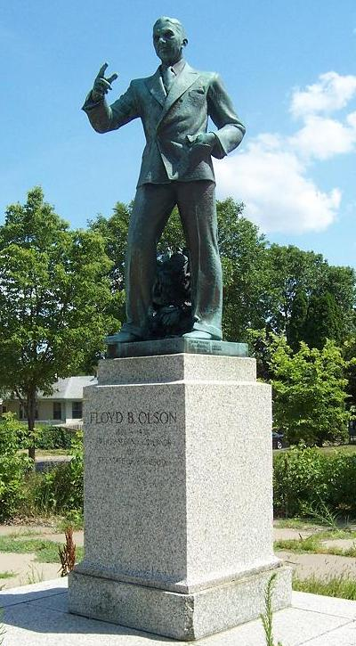 I took this photo on July 1, 2007. This statue of Floyd B. Olson is on the south side of Highway 55 (Olson Memorial Highway) and just east of Penn Avenue, in Minneapolis, Minnesota.